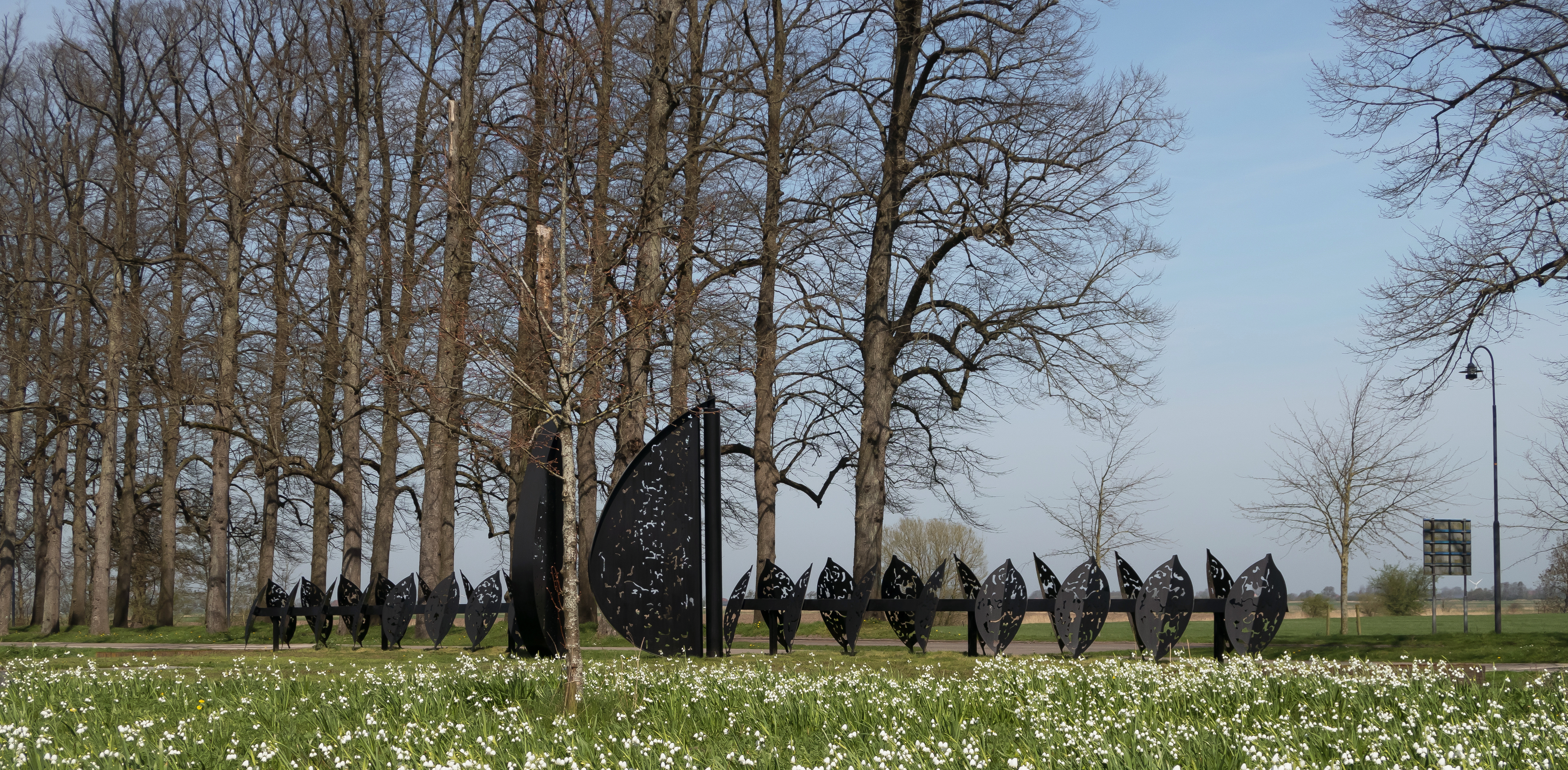 Rijs, entry of castle (slot Rijs)